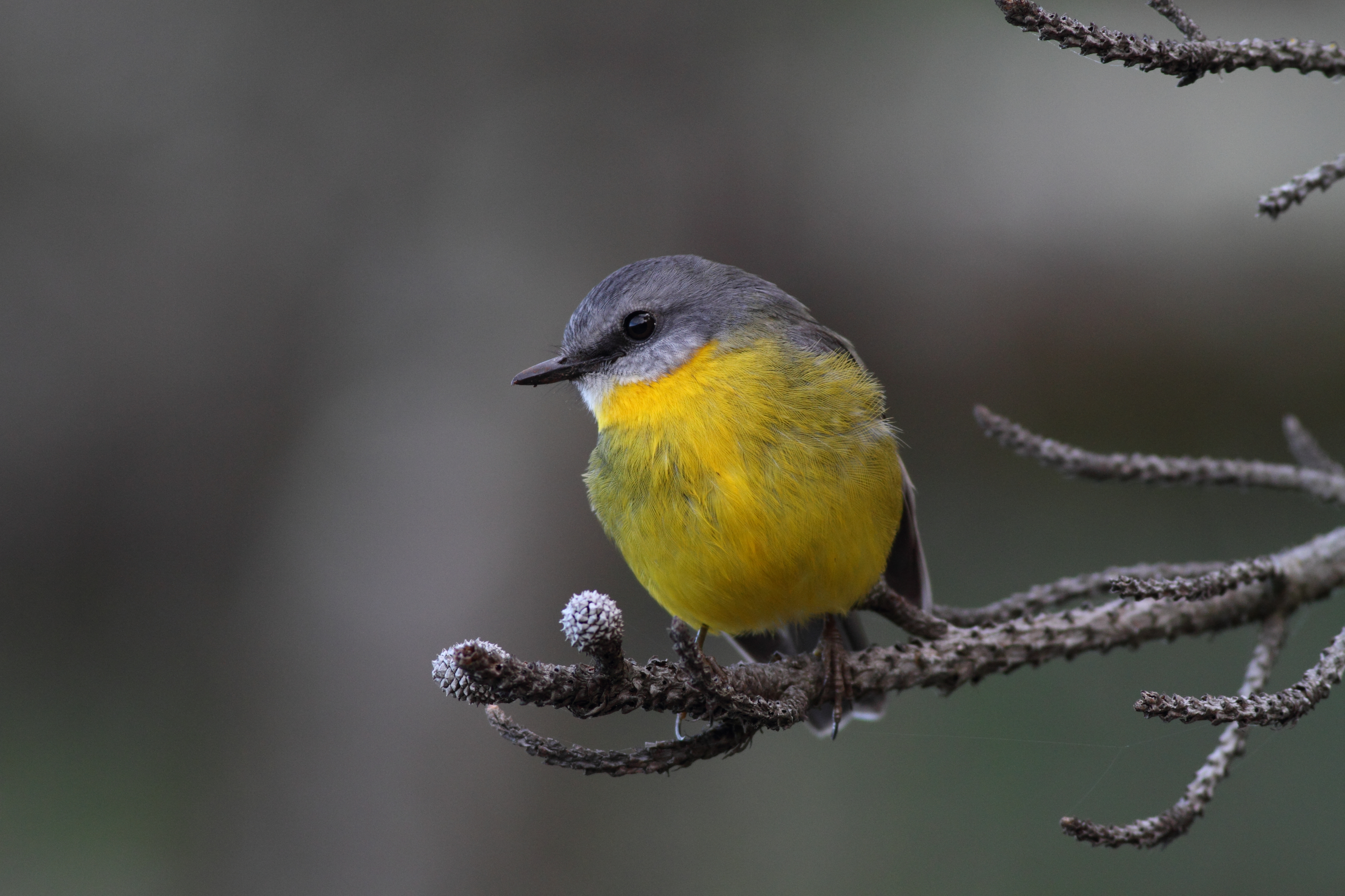 A Eastern Yellow Robin in Flinders, Victoria, Australia.